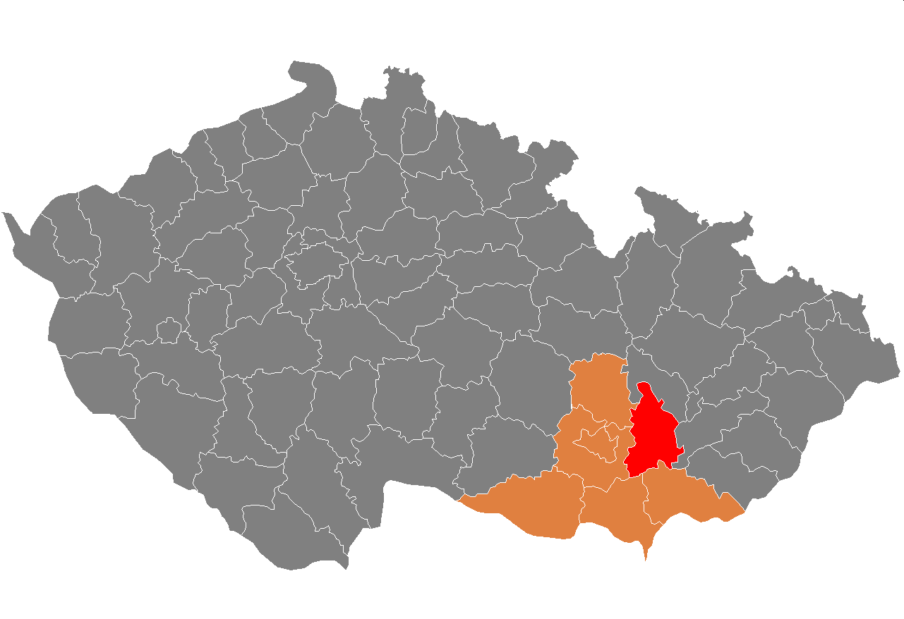 Location of Vyškov District within the Czech Republic